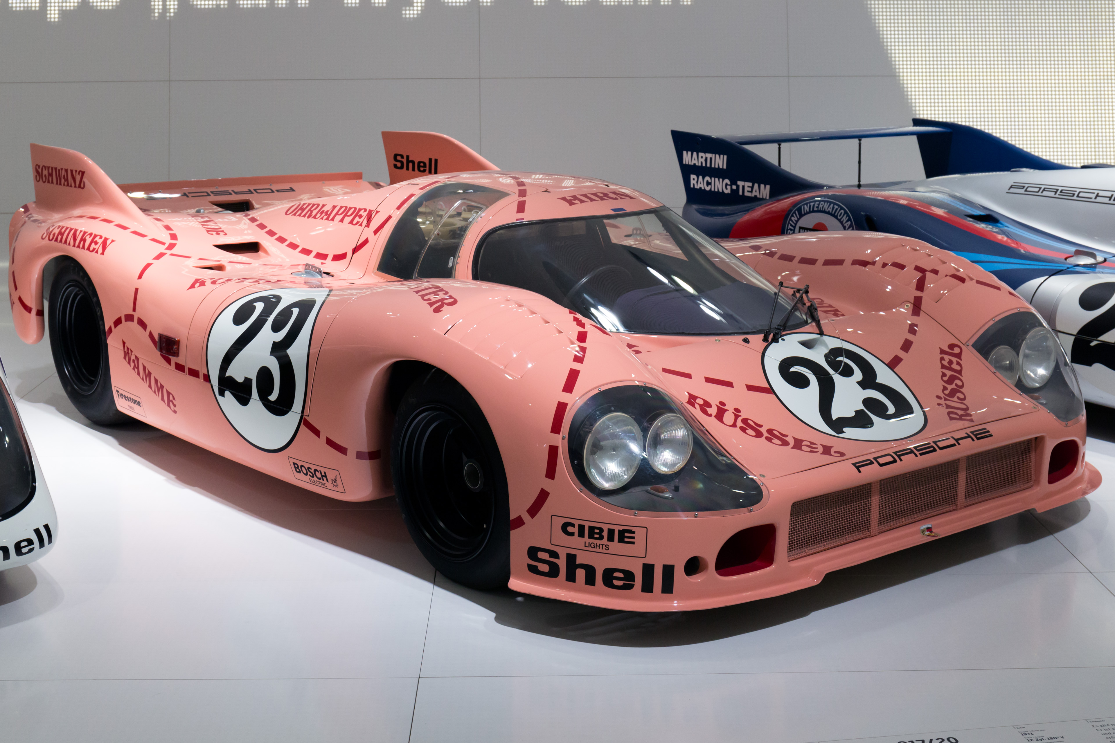 1971 Porsche 917/20 Coupe "Pink Pig"